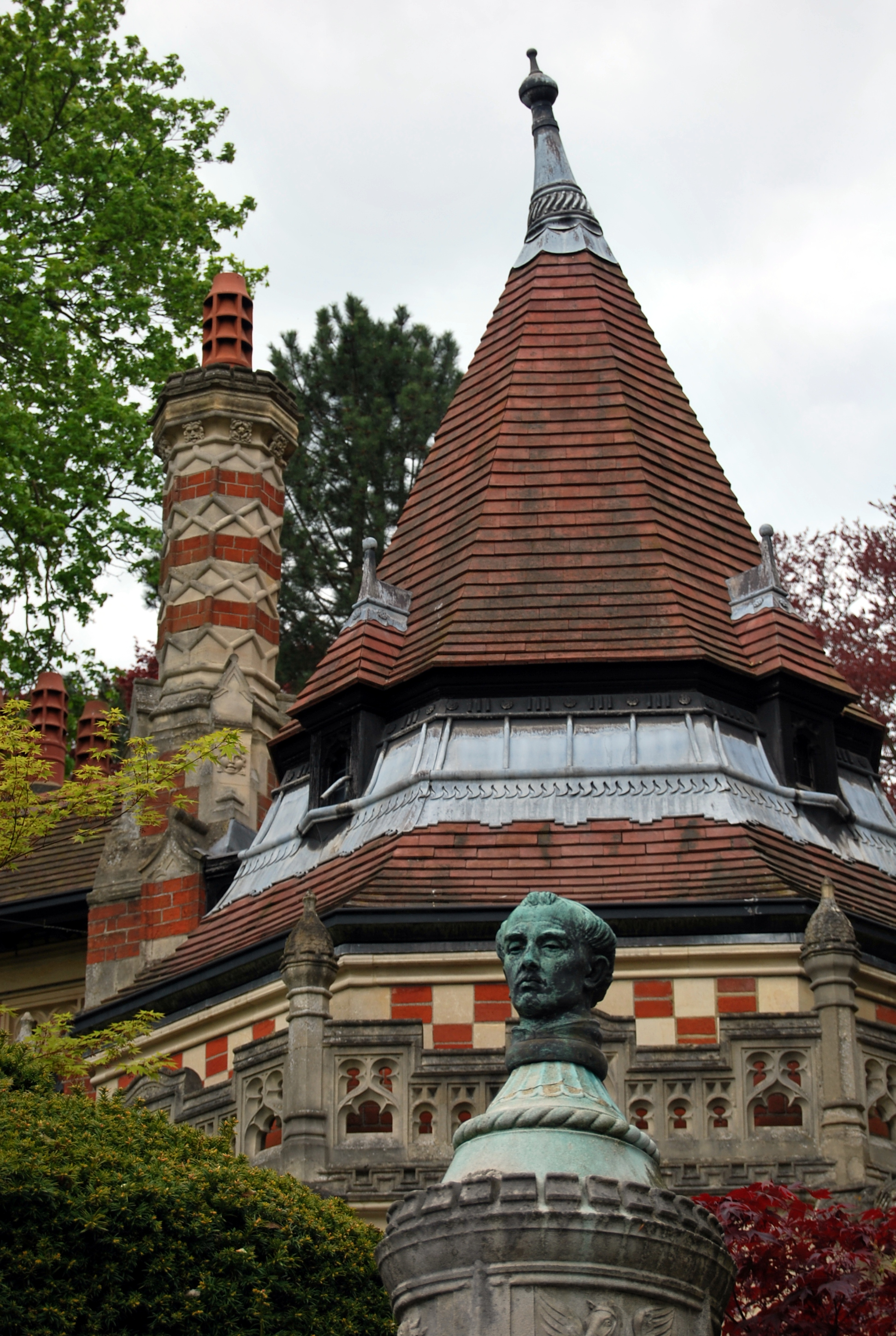 Henley on Thames Friar Park Gate House Detail